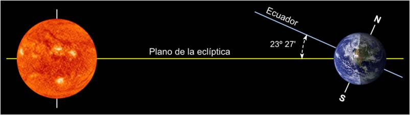 Viewed from a lateral plane scheme gives an idea of the inclination of the axis of rotation of the earth relative to the ecliptic.